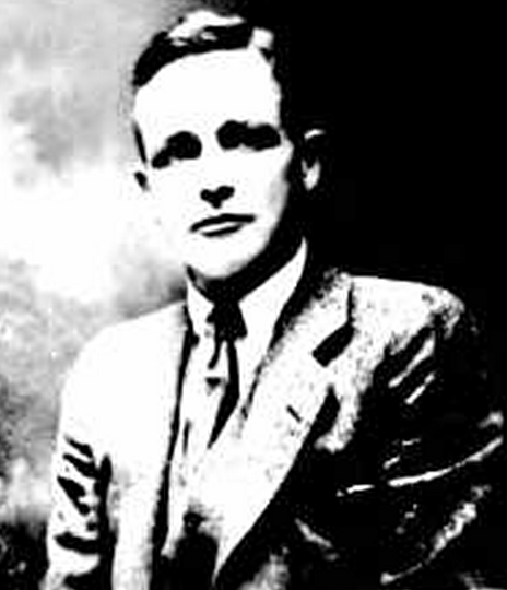 Photograph of John Field